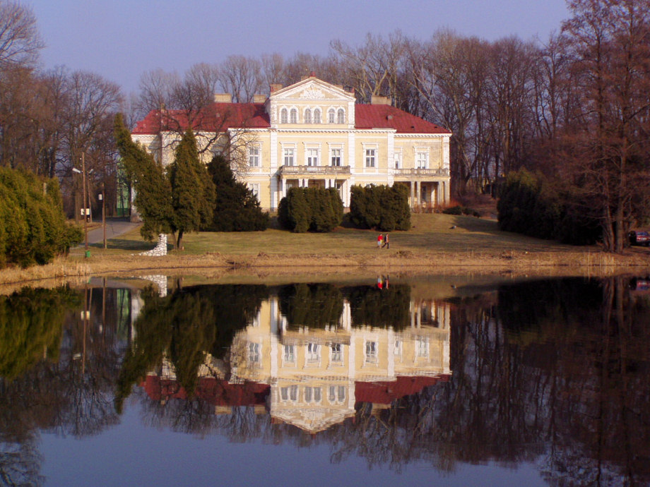 Neoclassical Raczyński family palace in Złoty Potok, Poland.